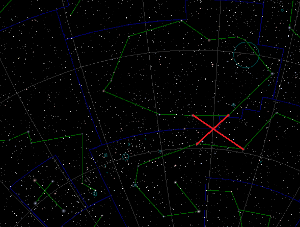 False Cross (red) and Southern Cross (in lower left)